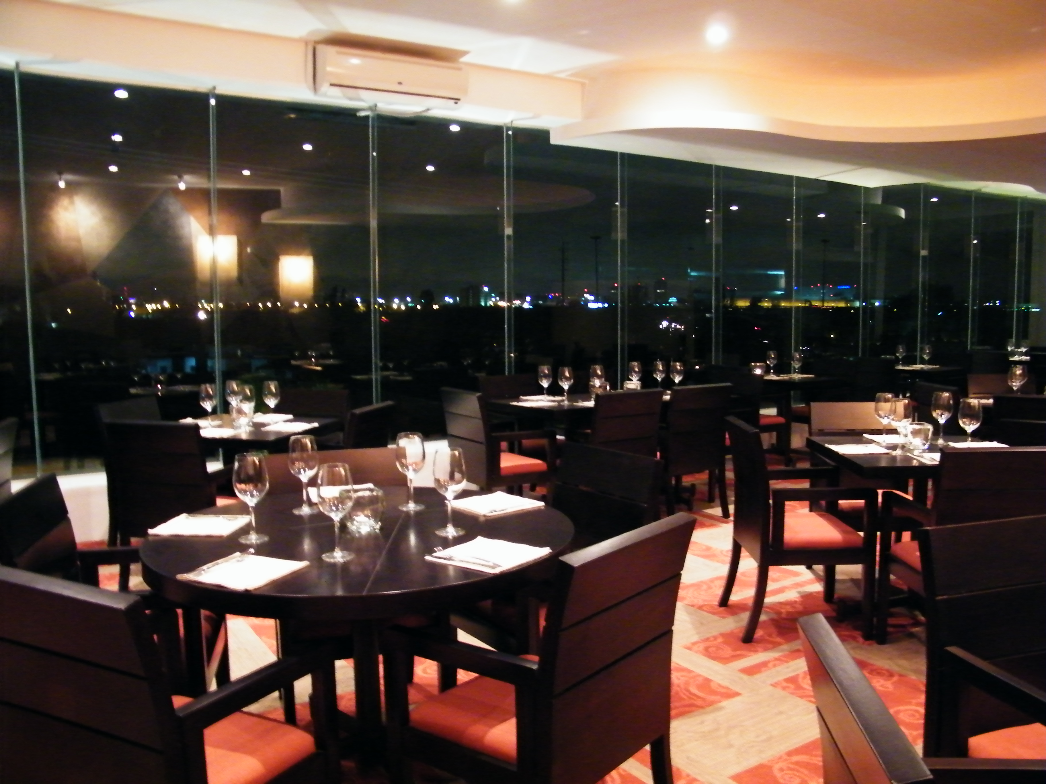 IL BECCO cucina del mare at night